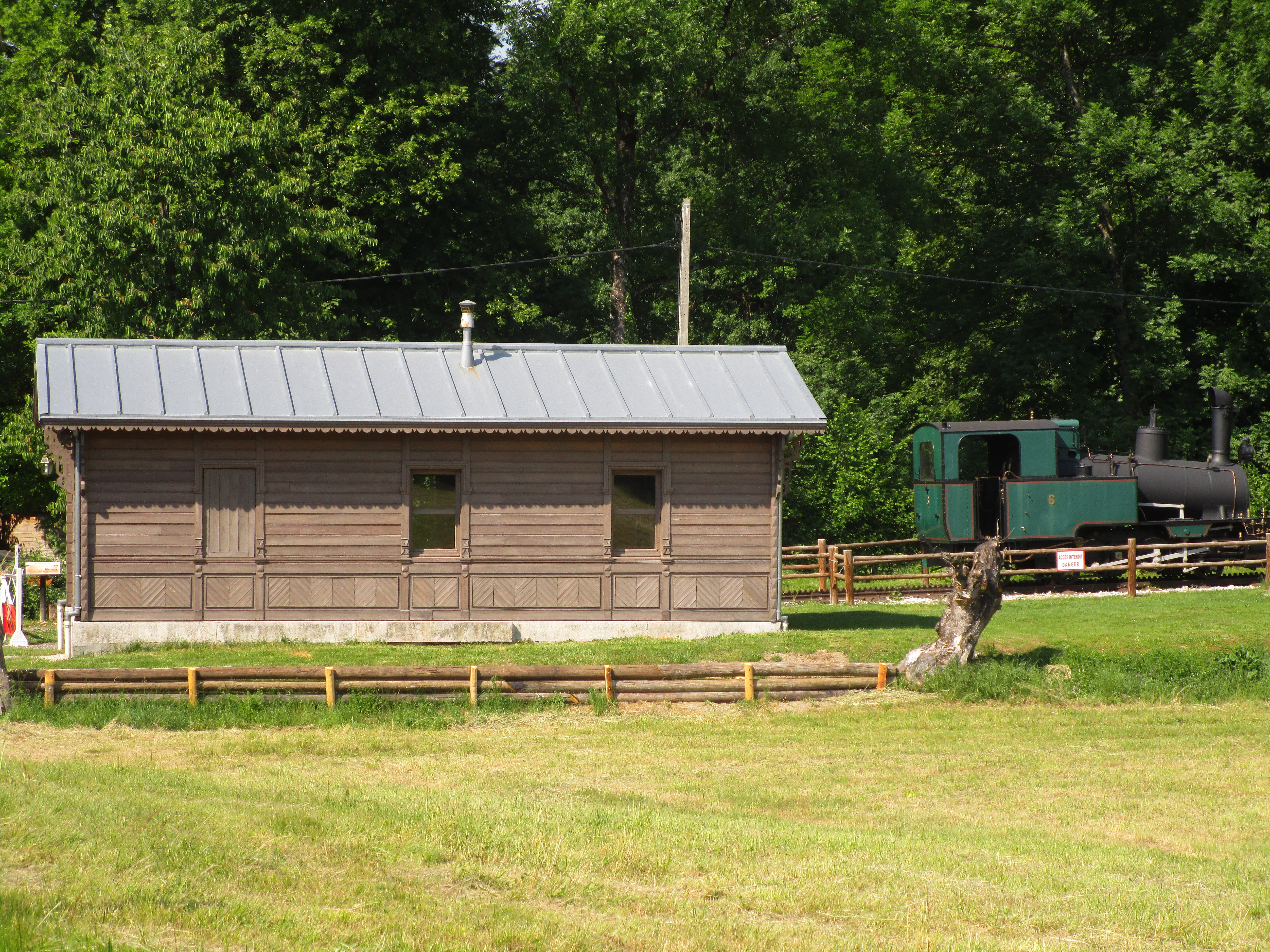 A SLM Wintherthur 021t (n°6, formelly exploited at the Montenvers Railway) and the former train station (Mouxy, France) on May 27, 2017.